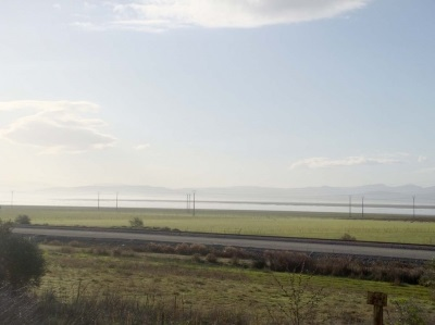 بحيرة فتزارة